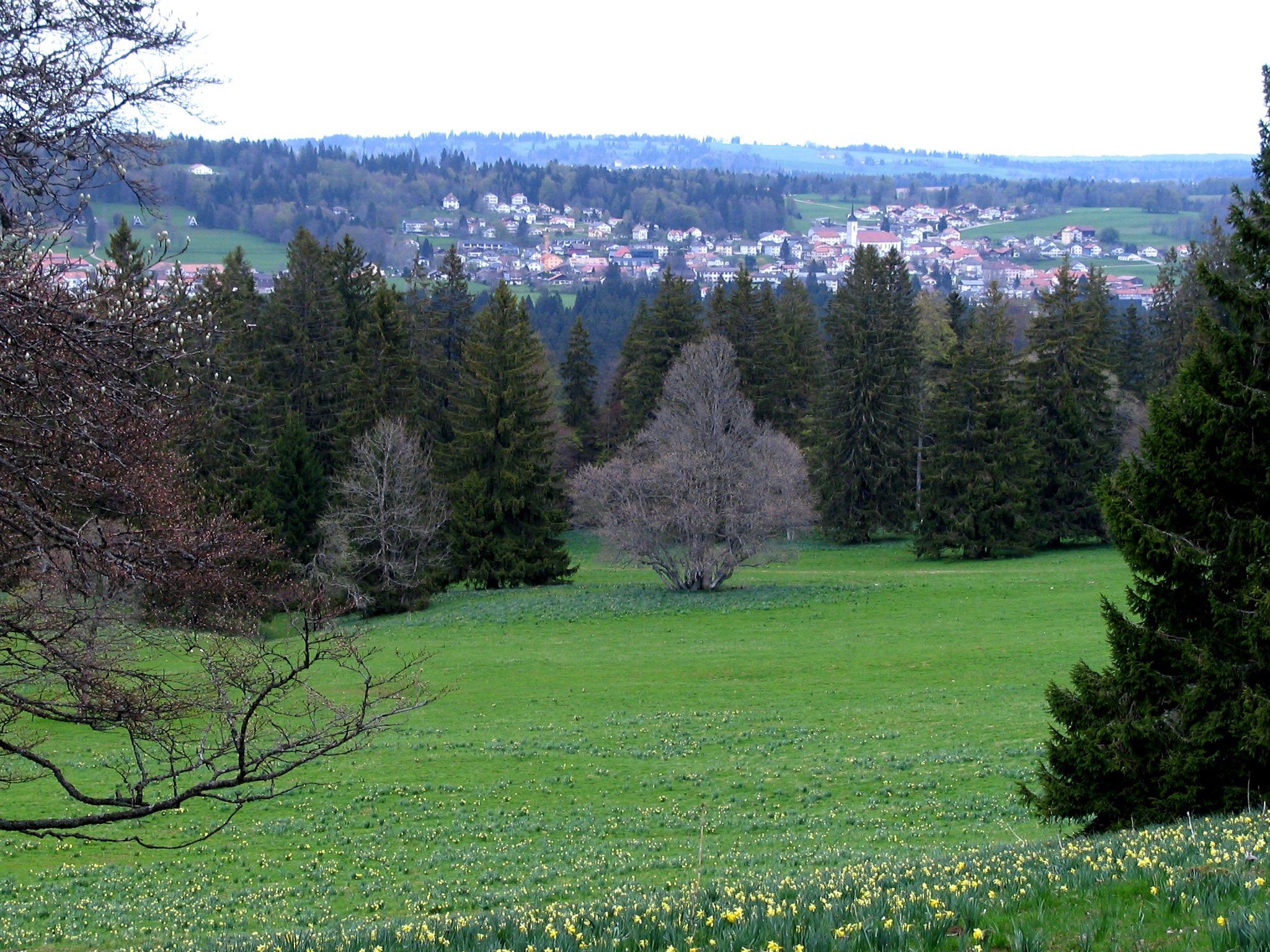 Les Breuleux seen from South